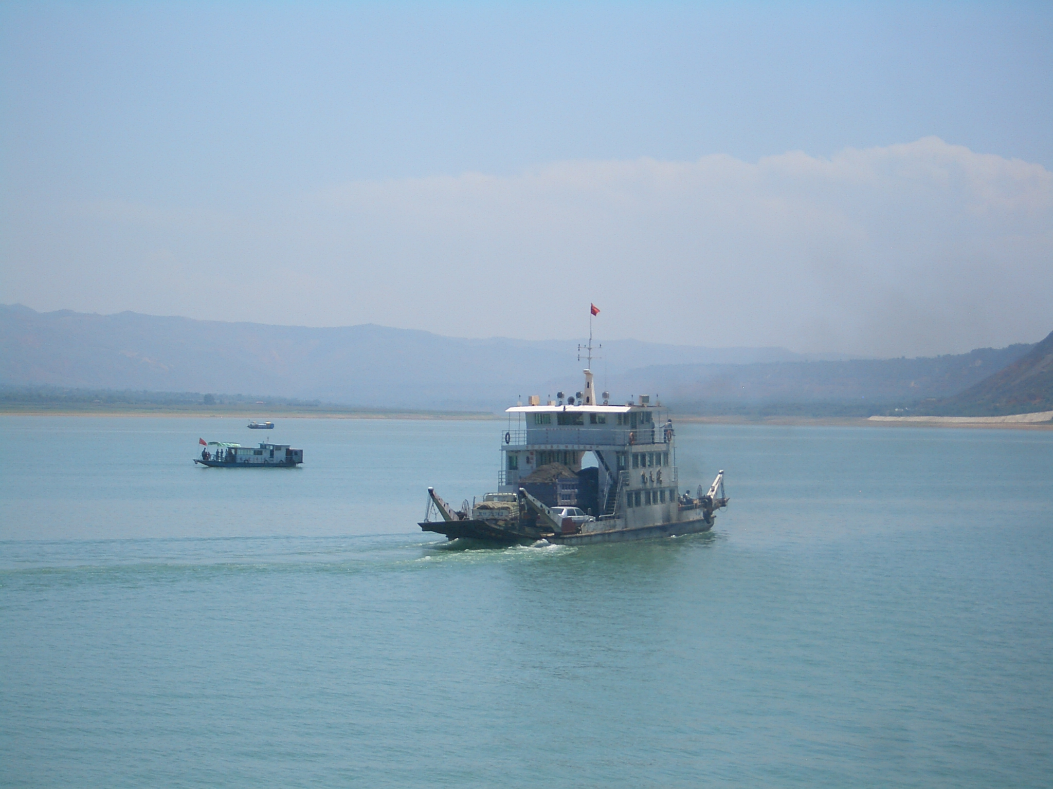 A ferry, and another boat on the Liujiaxia Reservoir (Seen from another ferry).